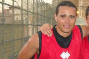 Picture of Sergio Pacheco de Oliveira.